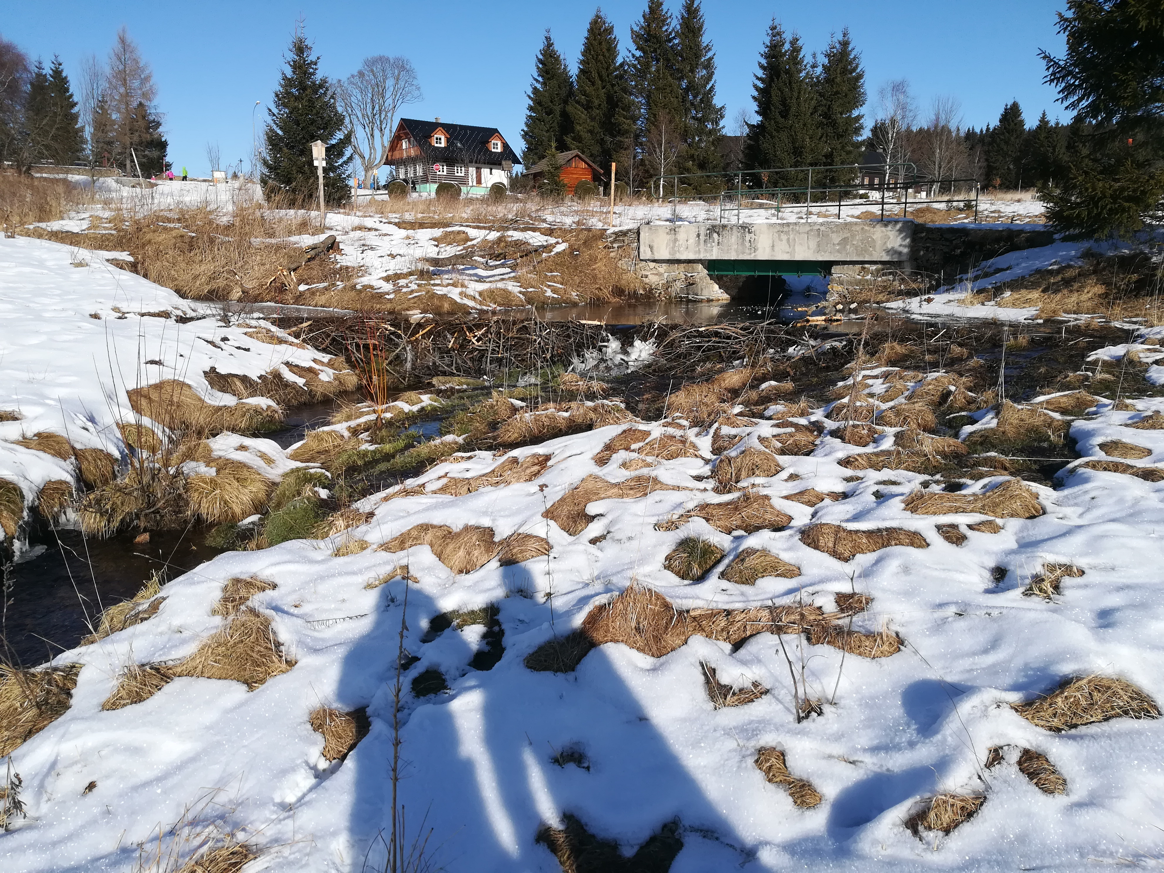 The brook „Filipohuťský potok“ in the Šumava Mts., Czech republic. The beaver dam is clearly visible in the foreground. January 2020.